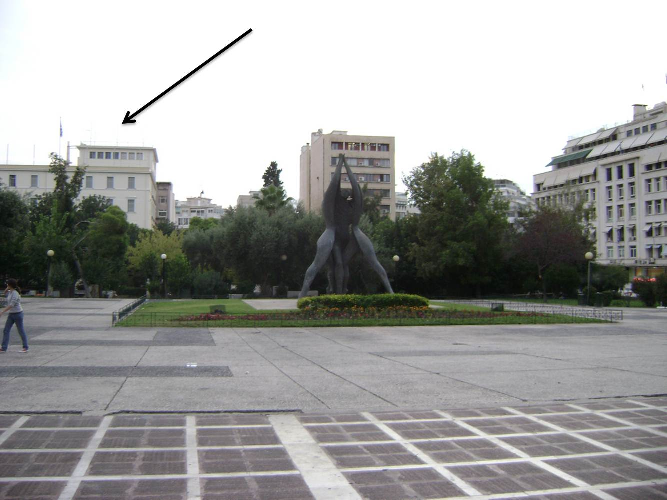 Plateia Klafthmonos (Klafthomonos Square), Athens, Greece as seen from Stadiou Street. The arrow indicates the building used as a seat of the former Ypourgeio Naftikon (Ministry of Naval Affairs) from 1884 until 1950